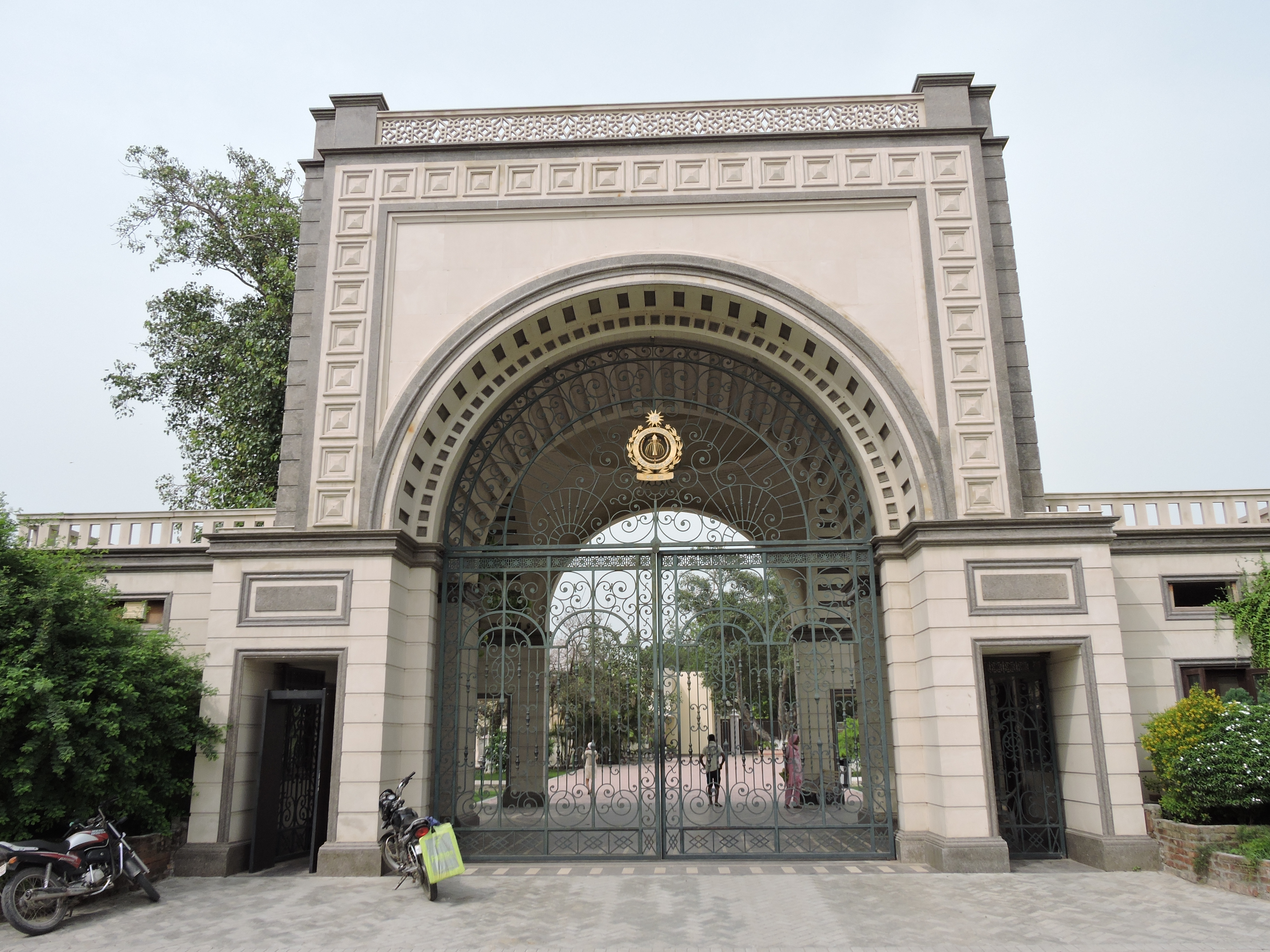 Bhaini Sahib, Sh. Ram Singh Memorial, District Ludhyana, Punjab , India.